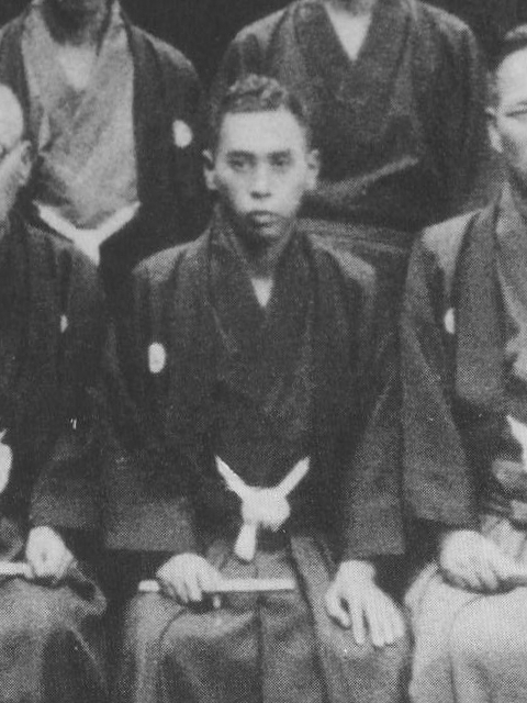 Gen'ichi Ono (Shogi players). taken in 1939.